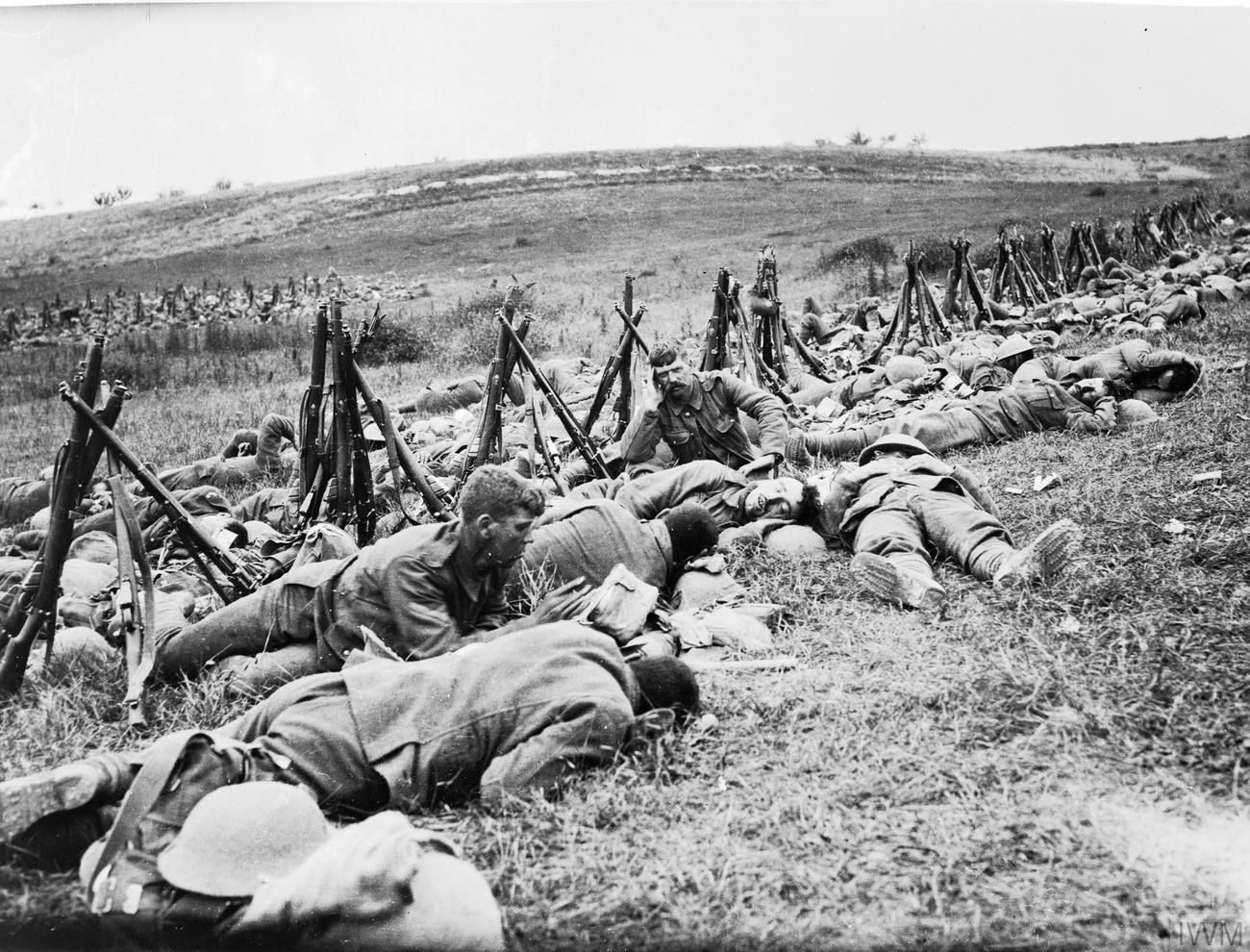 THE BATTLE OF THE SOMME 1 JULY - 18 NOVEMBER 1916: Men of the Royal Warwickshire Regiment, their rifles stacked nearby, lying exhausted in the grass in a rear area